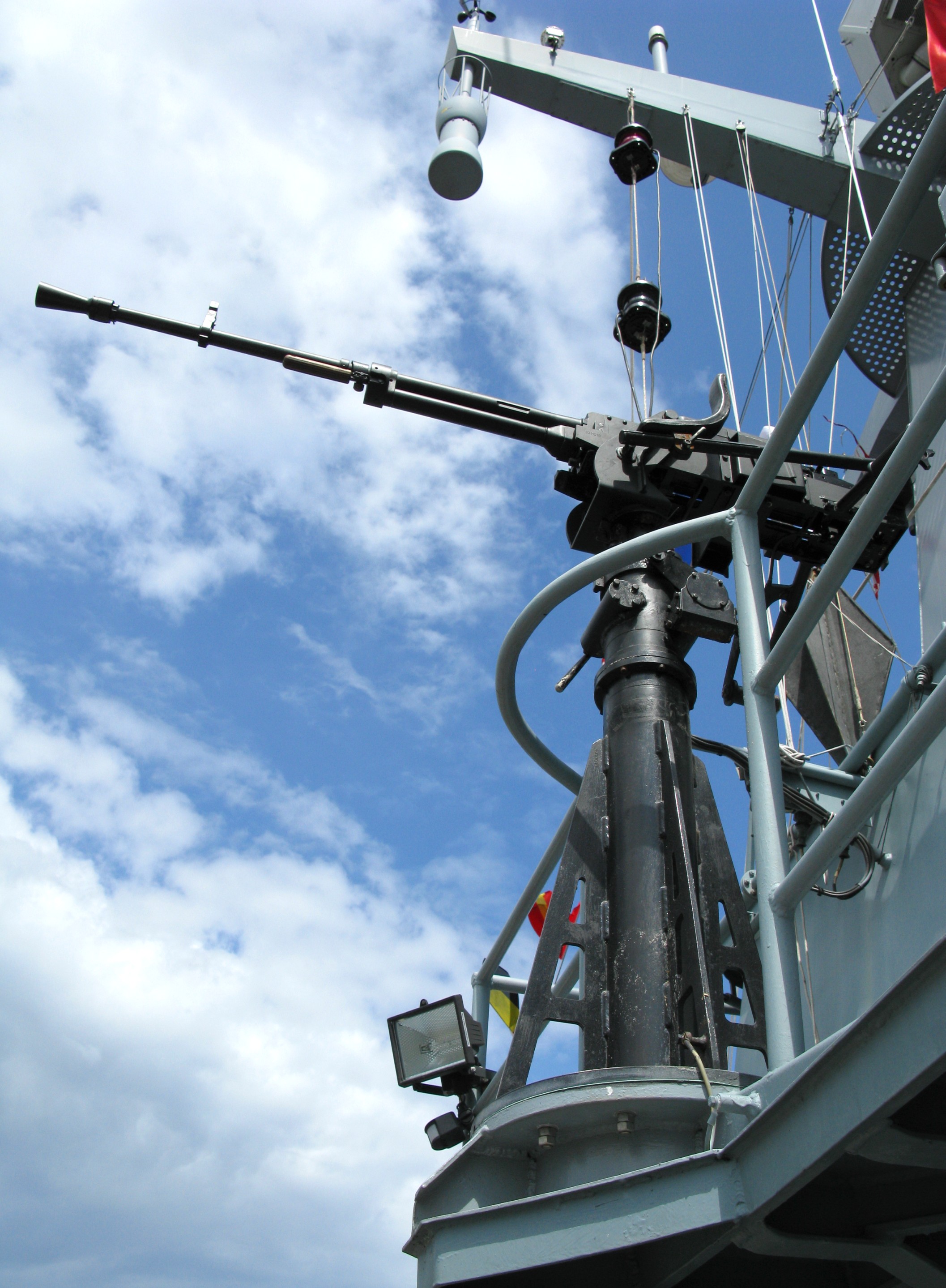 Polish 12,7 WKM-Bm heavy gun on Polish Corvette